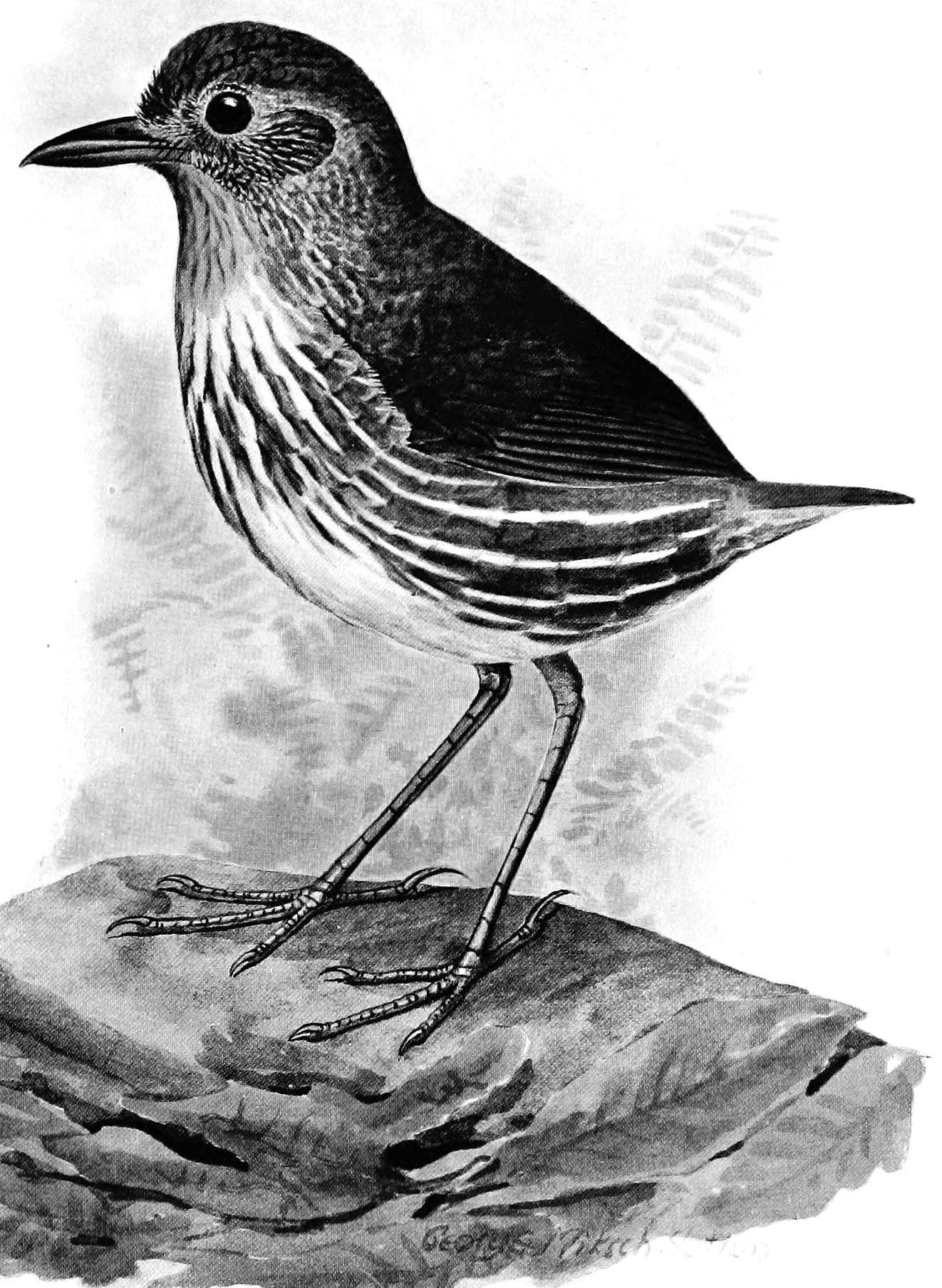 Grallaria bangsi (Santa Marta Antpitta)